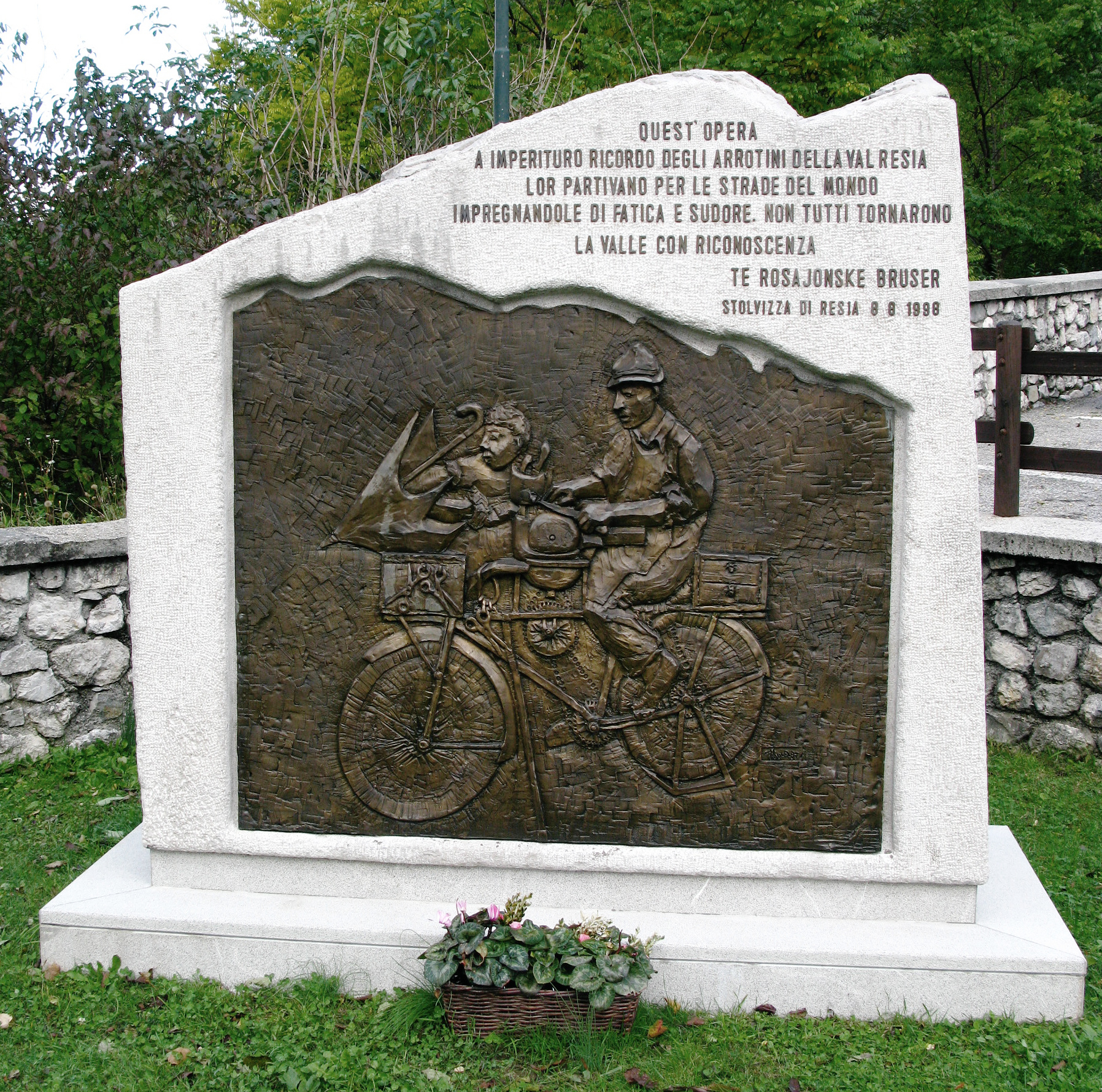 Scissors grinder monument in Stolvizza in the back Resia valley, a tributary valley of Canal del Ferro / Friuli-Venezia Giulia / Italy / EU.